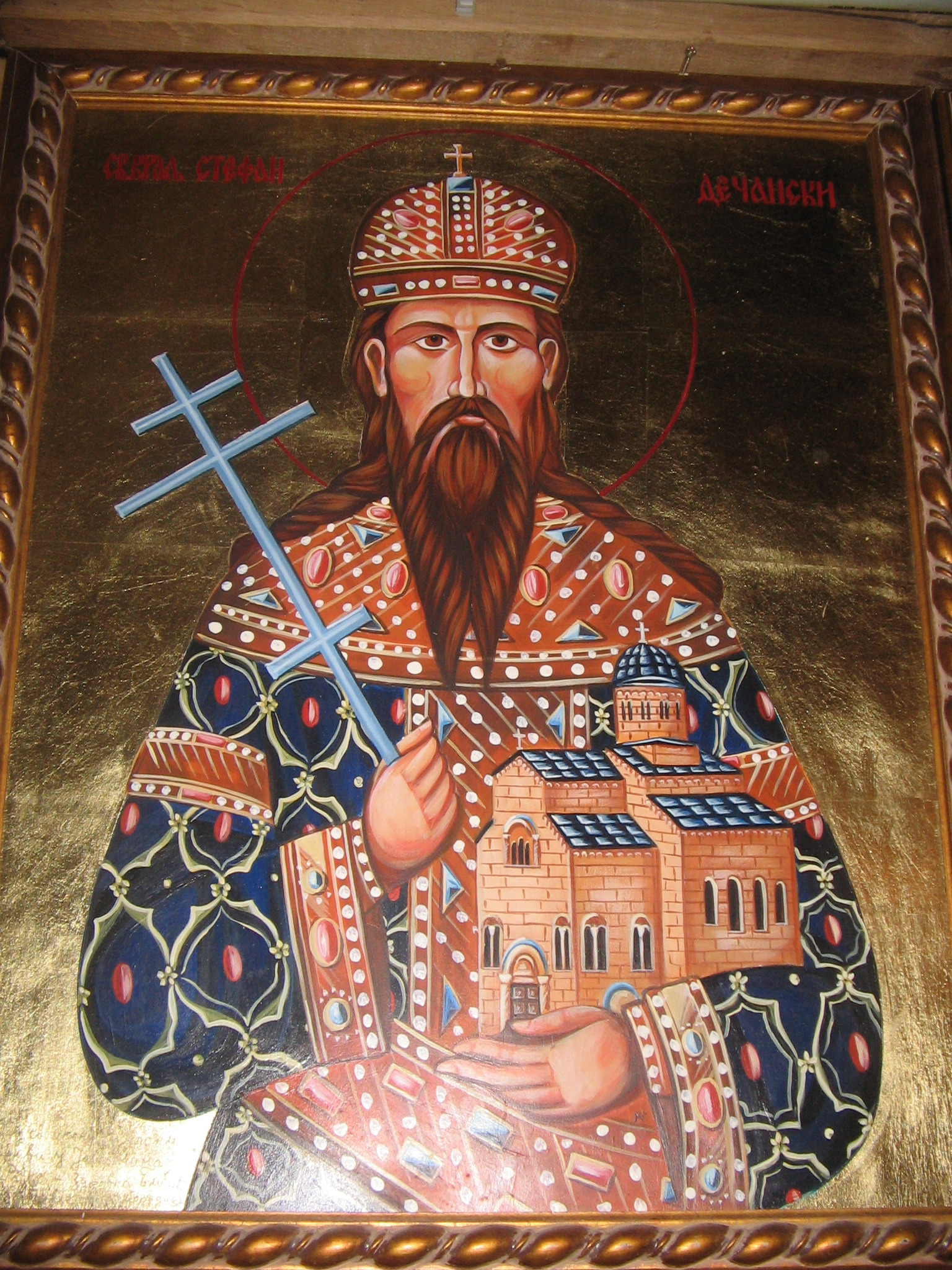 Stefan Dečanski (picture taken from Old St. Nicholas Church in Javorani)